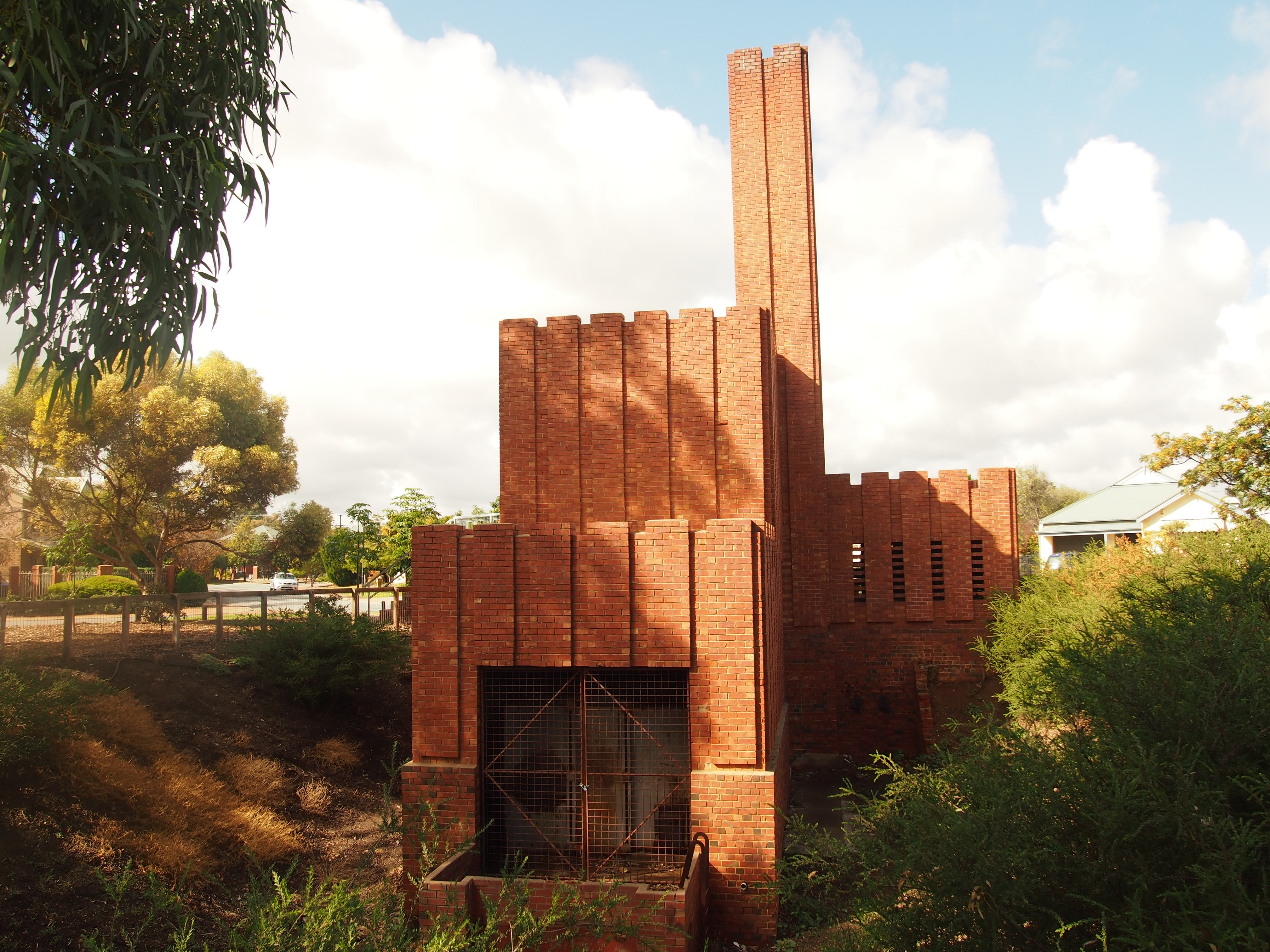 The Hindmarsh Incinerator, designed by Walter Burley Griffin and Eric Nicholls in 1935, and commissioned in 1936, is located in Josiah Mitton Reserve on Burley Griffin Boulevard, Brompton; viewed from the northwest. Original filename = P5101964.JPG